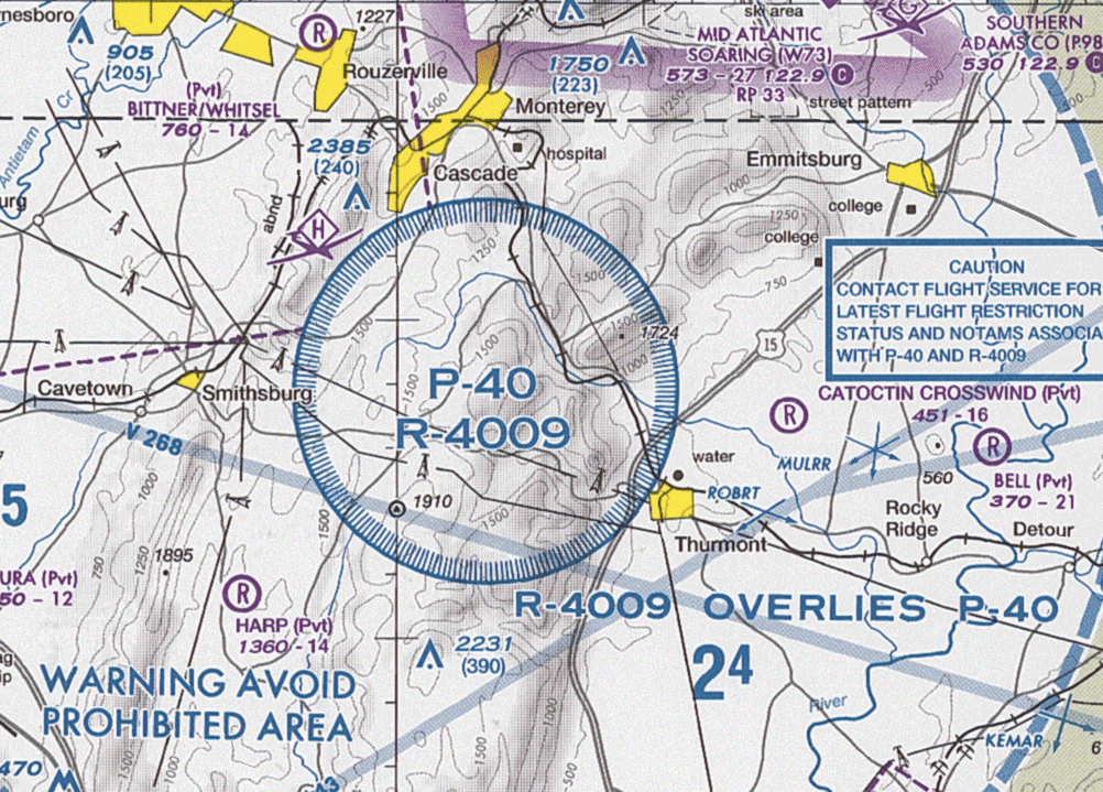 Section of VFR Terminal Area Raster Aeronautical Chart Baltimore/Washington, 84th edition, showing the prohibited area P-40 and restricted area R-4009 around Camp David Note: This map is valid until 26 July 2012. For navigational purposes, be sure to get the newest edition at the official FAA website